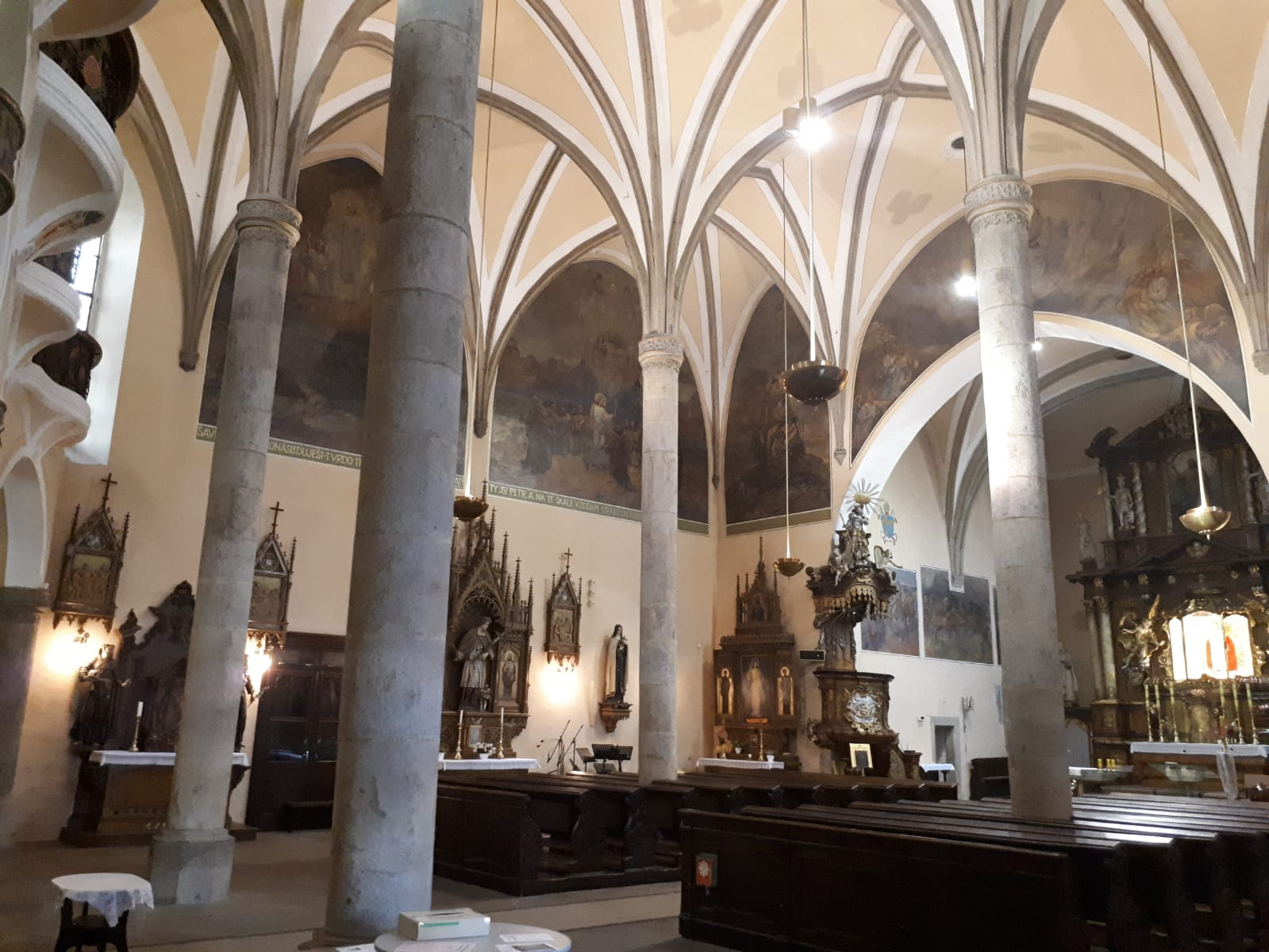 Kostel sv. Jana Křtitele, Dvůr Králové nad Labem